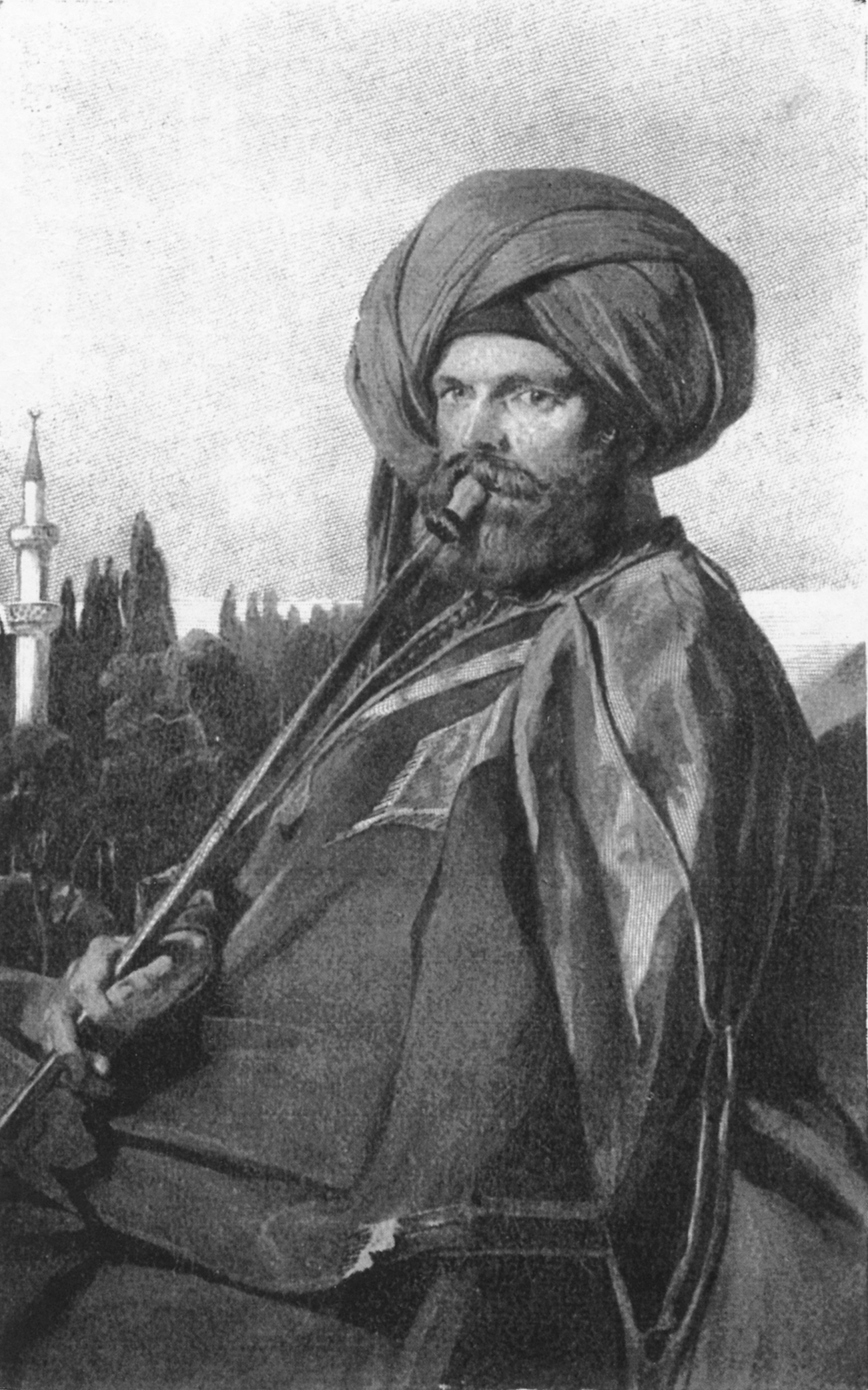 Black and white reproduction of portrait painting of philanthropist John Lowell, Jr. (1799-1836)